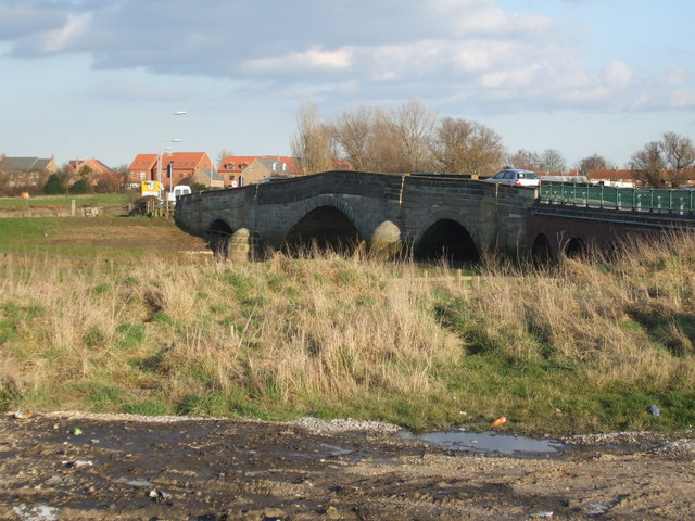 Bubwith bridge, between Bubwith, East Riding of Yorkshire and North Duffield, North Yorkshire, England.